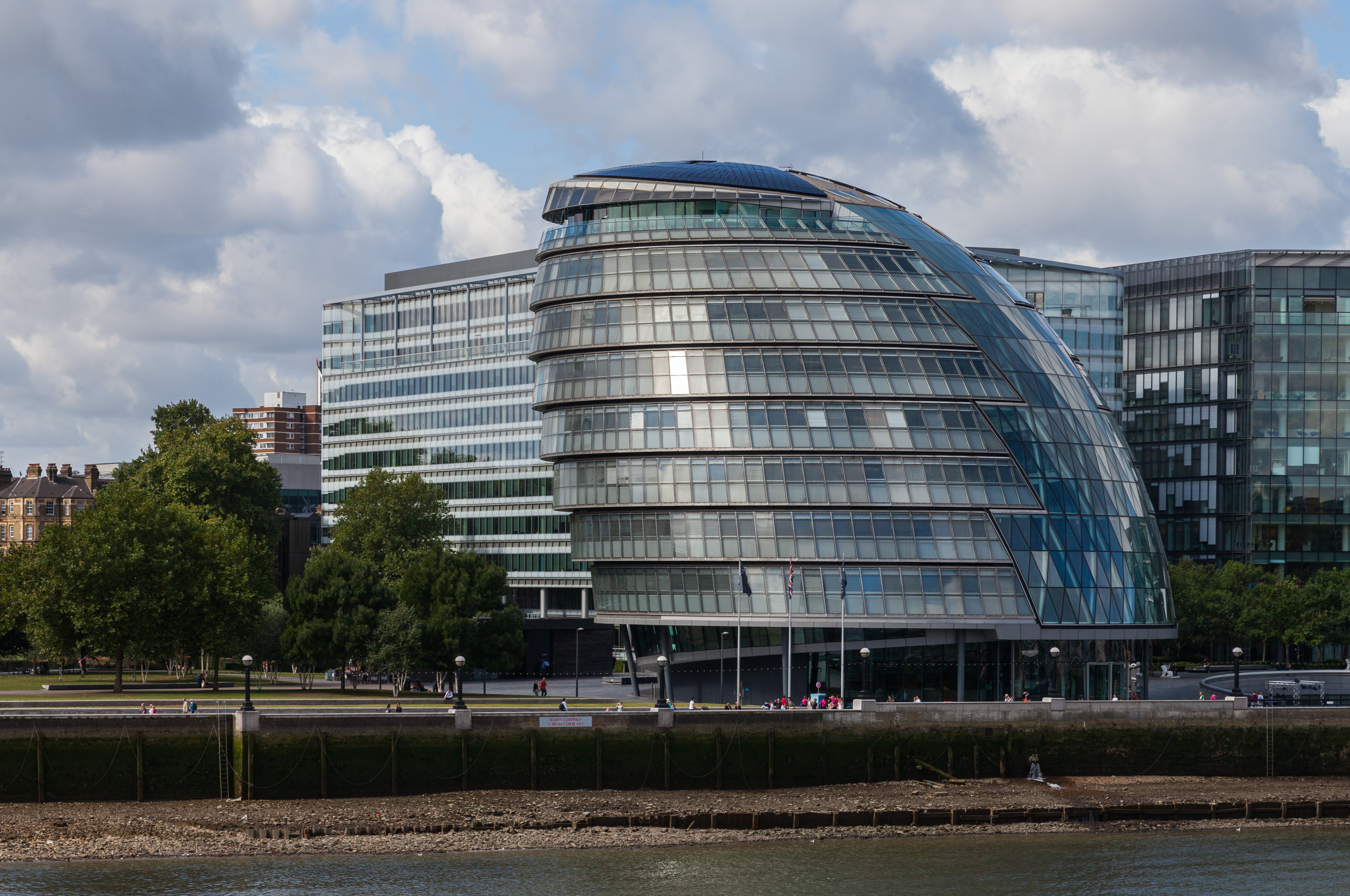 City Hall, London, England